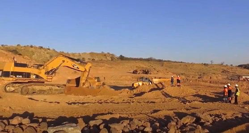 The Baba Diamond Fields in Zimbabwe